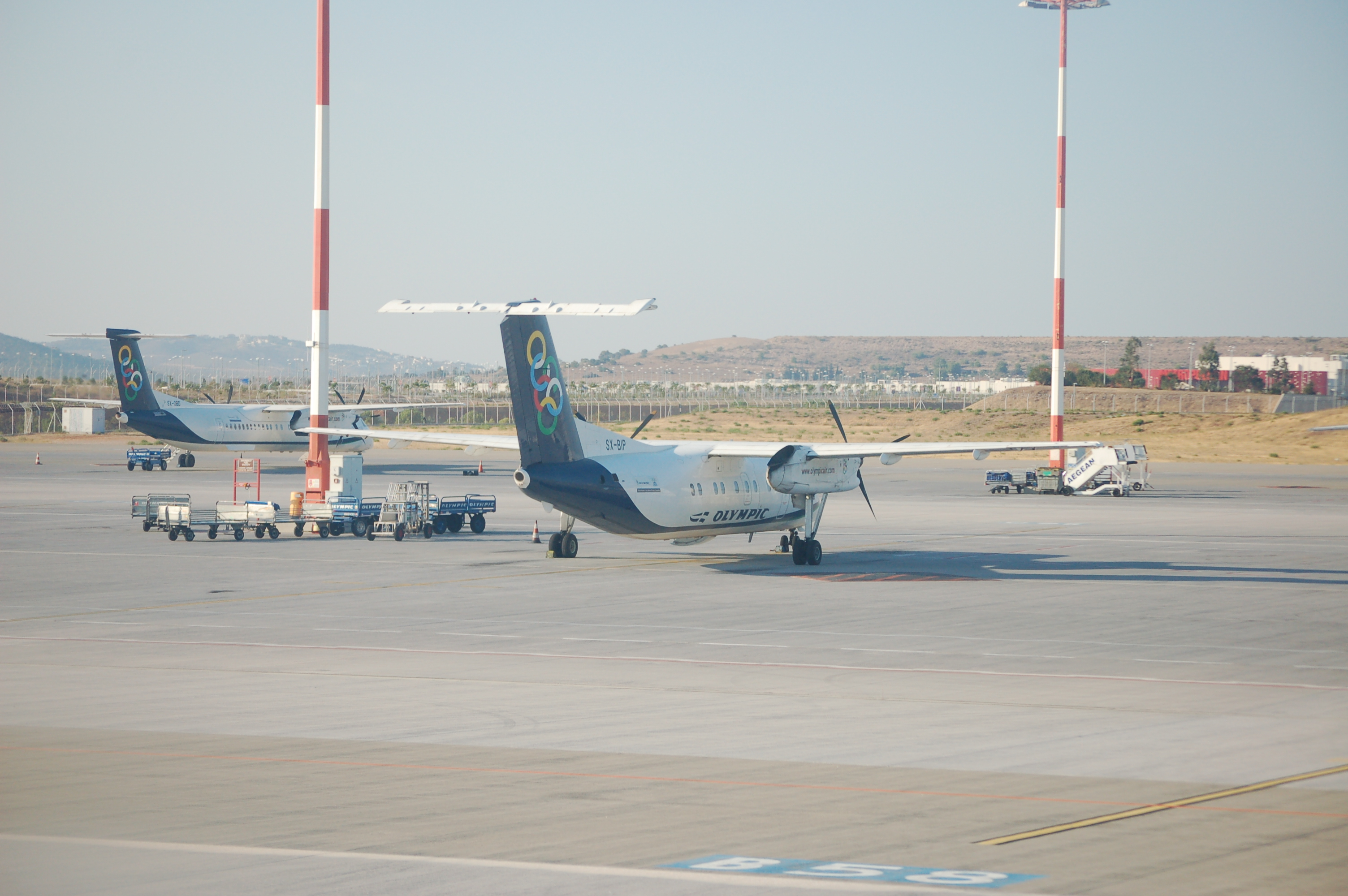 Olympic Air SX-BIP and SX-OBD (background, left) in Athens International Airport.